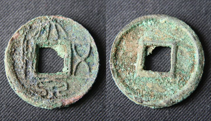 The front and reverse sides of a metal coin, 28 mm in diameter, issued during the regency of Wang Mang (r. 6–9 CE) of the Han Dynasty of China.